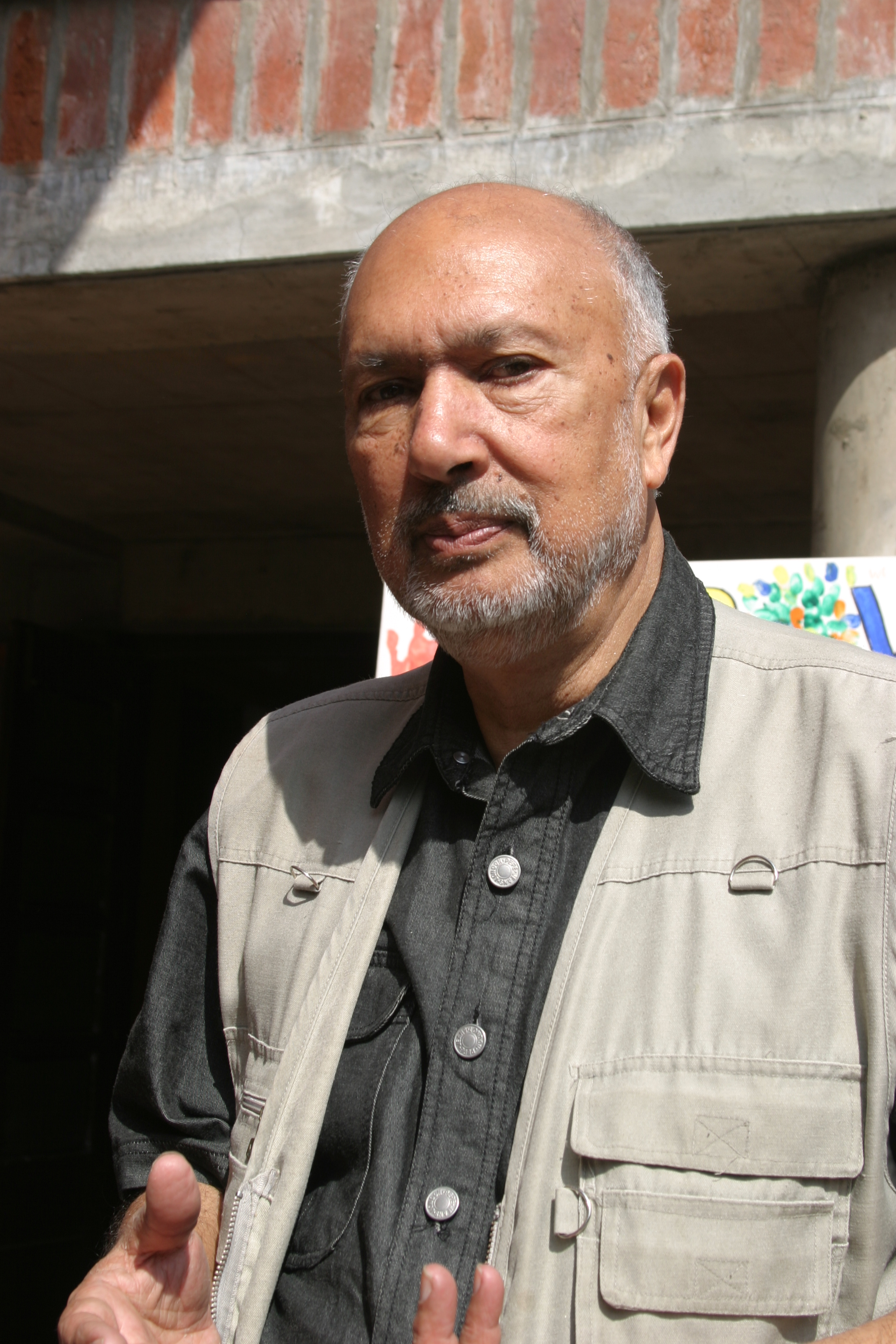 Michael Atchia at the 5th SAYEN Regional Meet at Ahmedabad, in November 2007